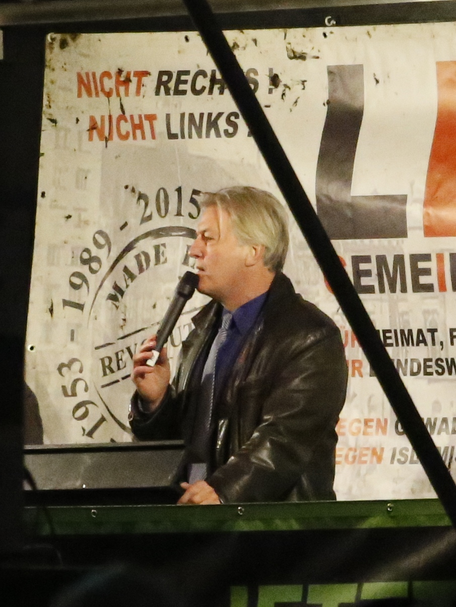 Jürgen Elsässer during a speech on an LEGIDA demonstration at 26th October 2015